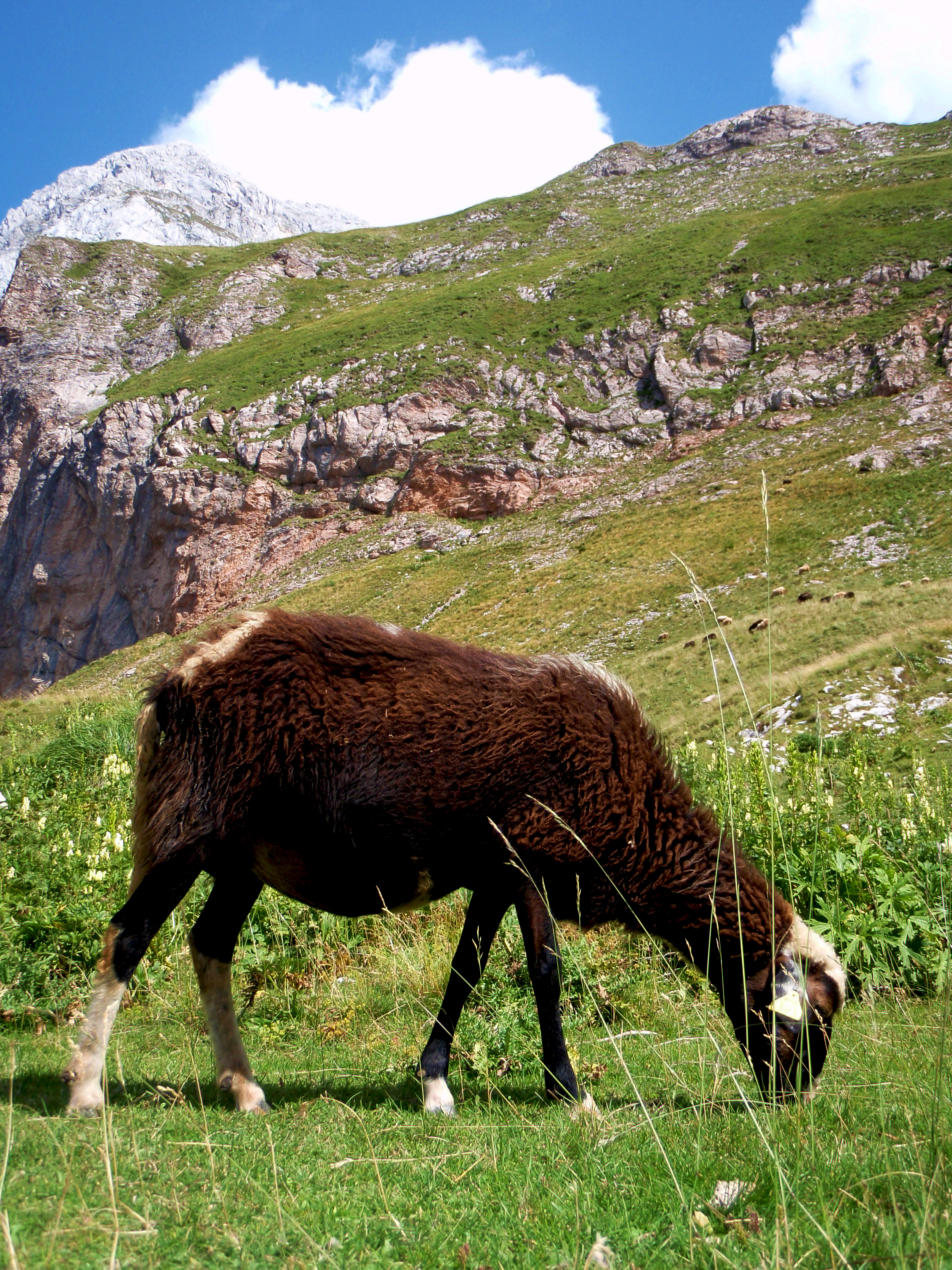 Sheep in Julian Alps, at 2000 meters. Српски (ћирилица): Овца на пашницима у Јулијским Алпима.